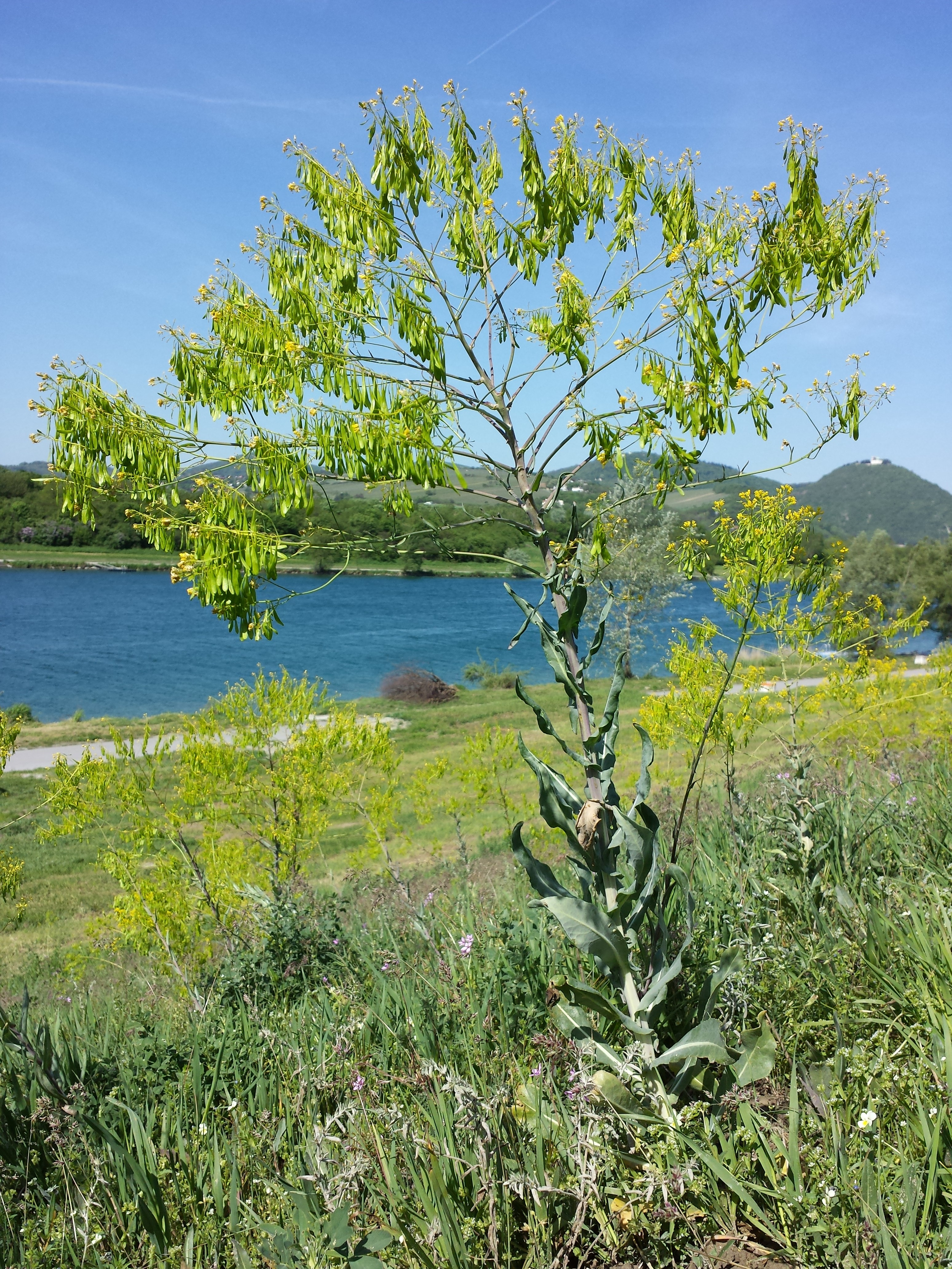 Habitus with fruits Taxon: Isatis tinctoria (s. str.) (sensu Fischer et al. EfÖLS 2008 ISBN 978-3-85474-187-9) Location: Neue Donau, Vienna-Floridsdorf - ca. 160 m a.s.l. Habitat: dry ruderal meadows